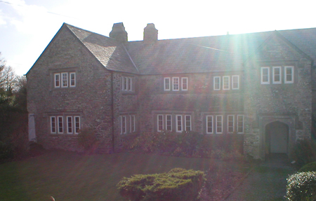 Photograph taken by Andy Titcomb 01.01.2002